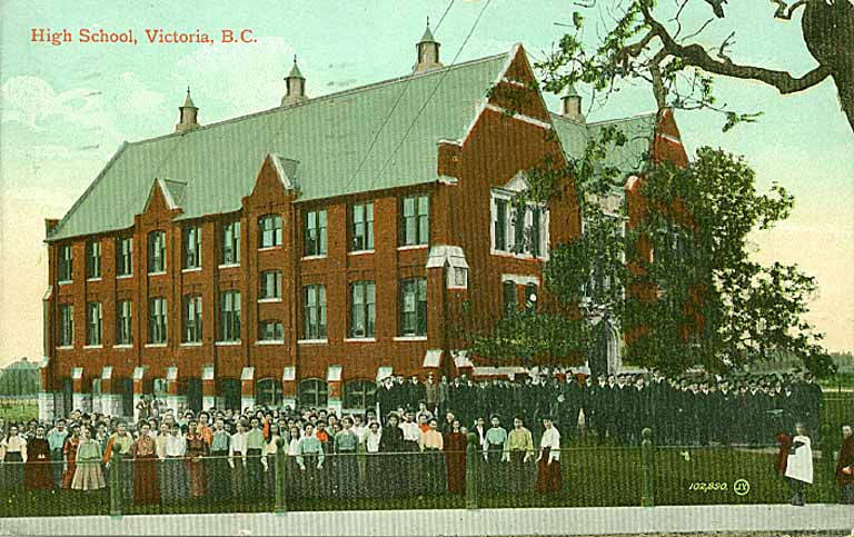 Caption on image: High School, Victoria, B. C. Handwritten on verso: Jan. 16, 1912 Printed on verso: Famous V. & Sons Filed in: British Columbia-Victoria-Schools The Victoria High School was built in 1902 using a design by F. M. Rattenbury, who also designed the Victoria Parliament buildings. It was demolished in 1953. Subjects (LCTGM): Schools--British Columbia--Victoria; Students--British Columbia--Victoria; Group portraits Subjects (LCSH): Victoria (B.C.)--Buildings, structures, etc.; Lost architecture--British Columbia--Victoria